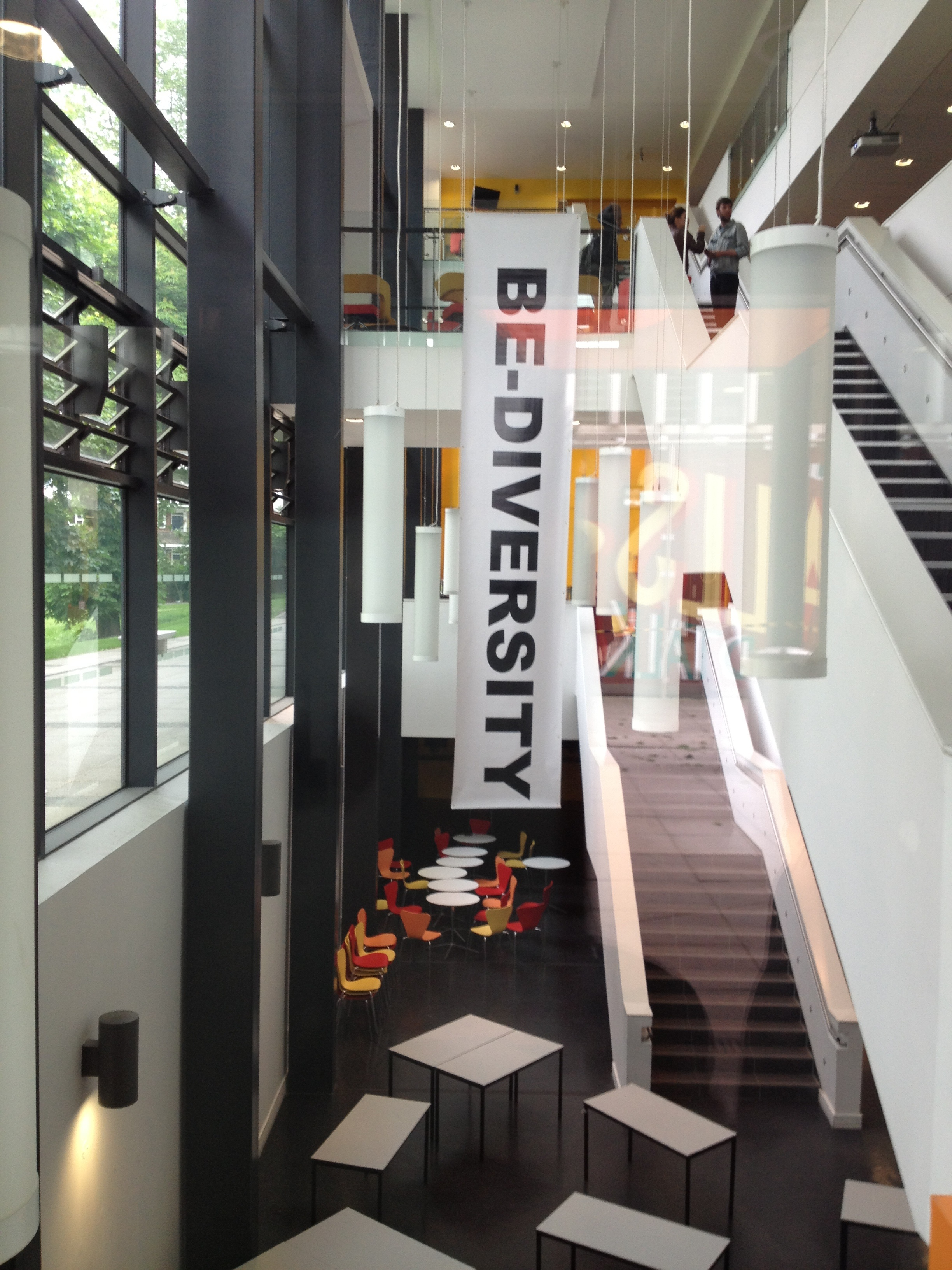 Be-diversity banner at NAB-New Academic Building. Goldsmiths University. London